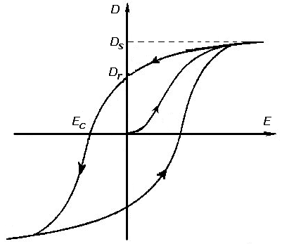 Electric hysteresis loop of a ferroelectric material.